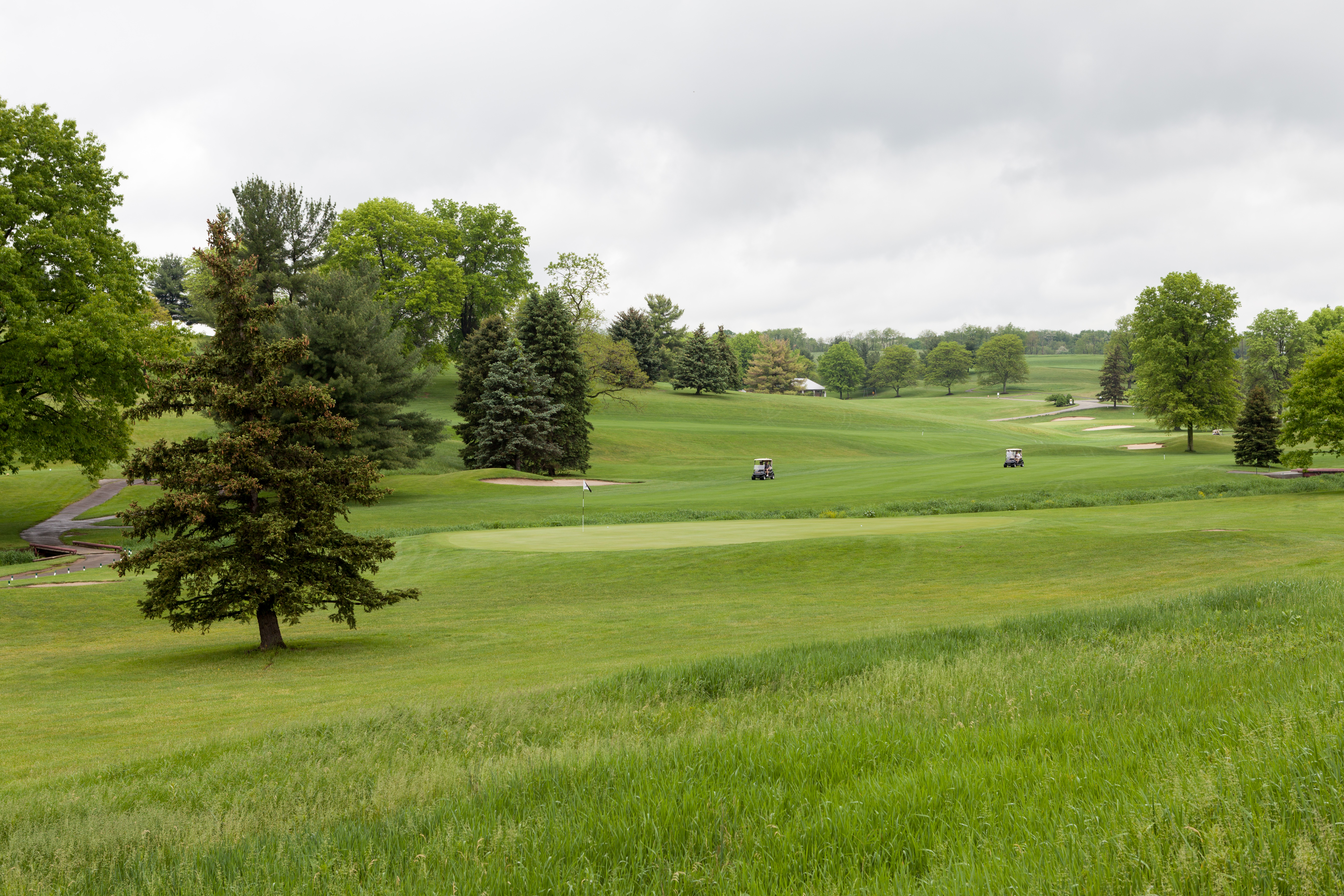 Lone Pines Country Club, Green Hills, Pennsylvania. The desire for a liquor license in a dry township resulted in a secession and the creation of a borough with a very small number of residents and this golf course.